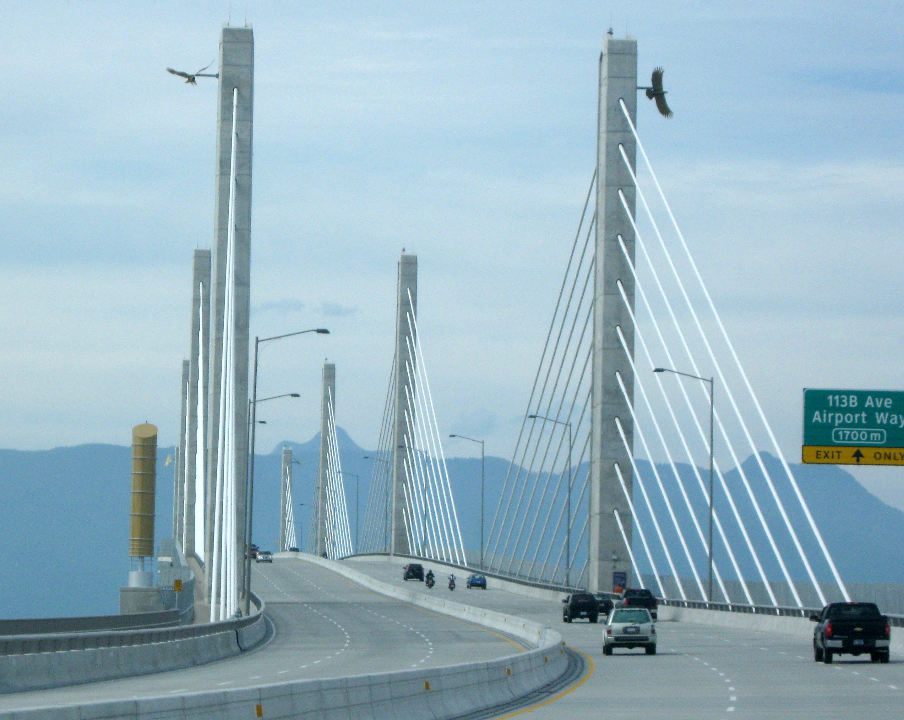 A shot on the GEB